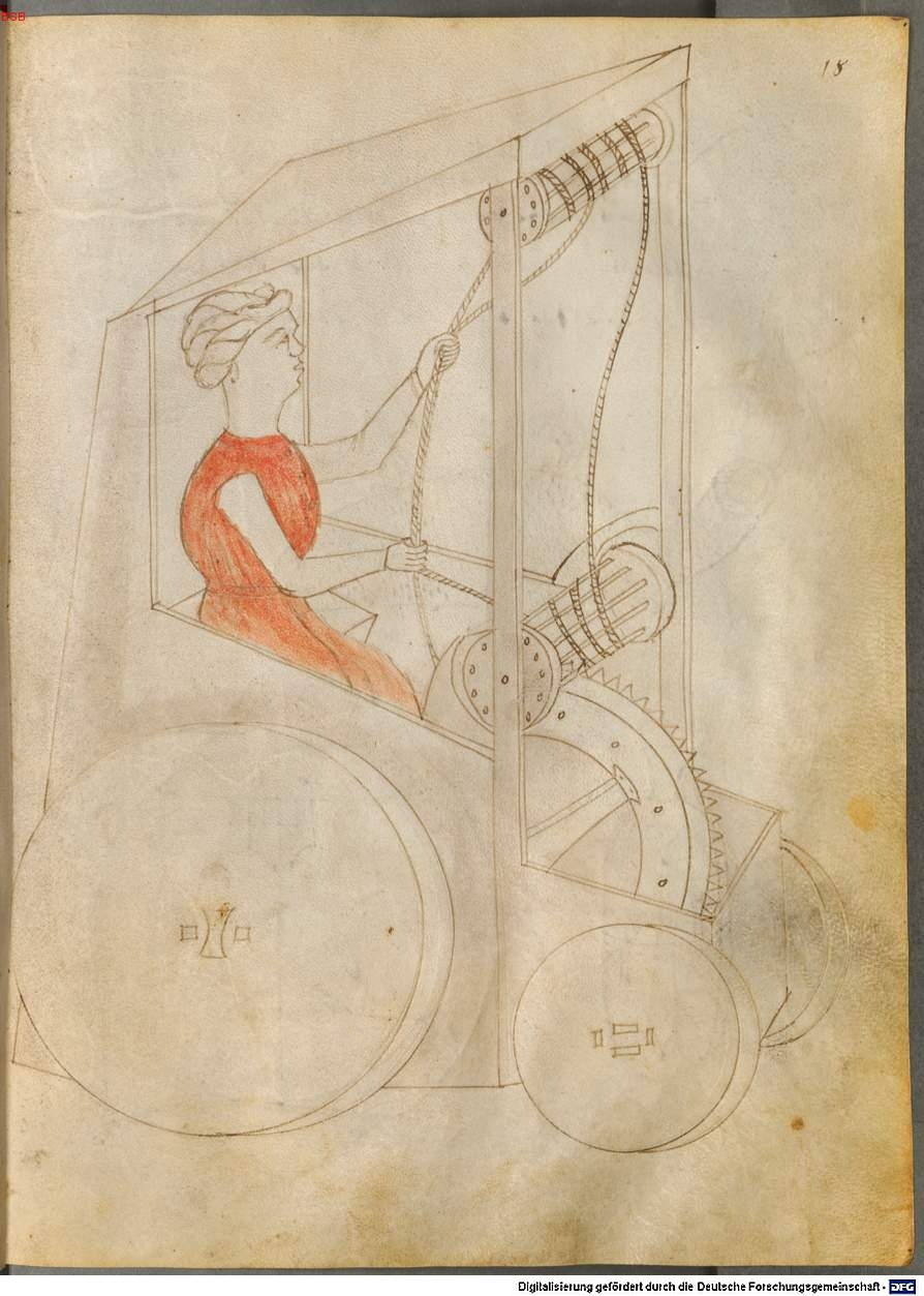 Johannes : Bellicorum instrumentorum liber cum figuris - BSB Cod.icon. 242 Venice c. 1420 - 1430. Digitized by Germany's DFG, published at Bayerische Staatsbibliothek BSB